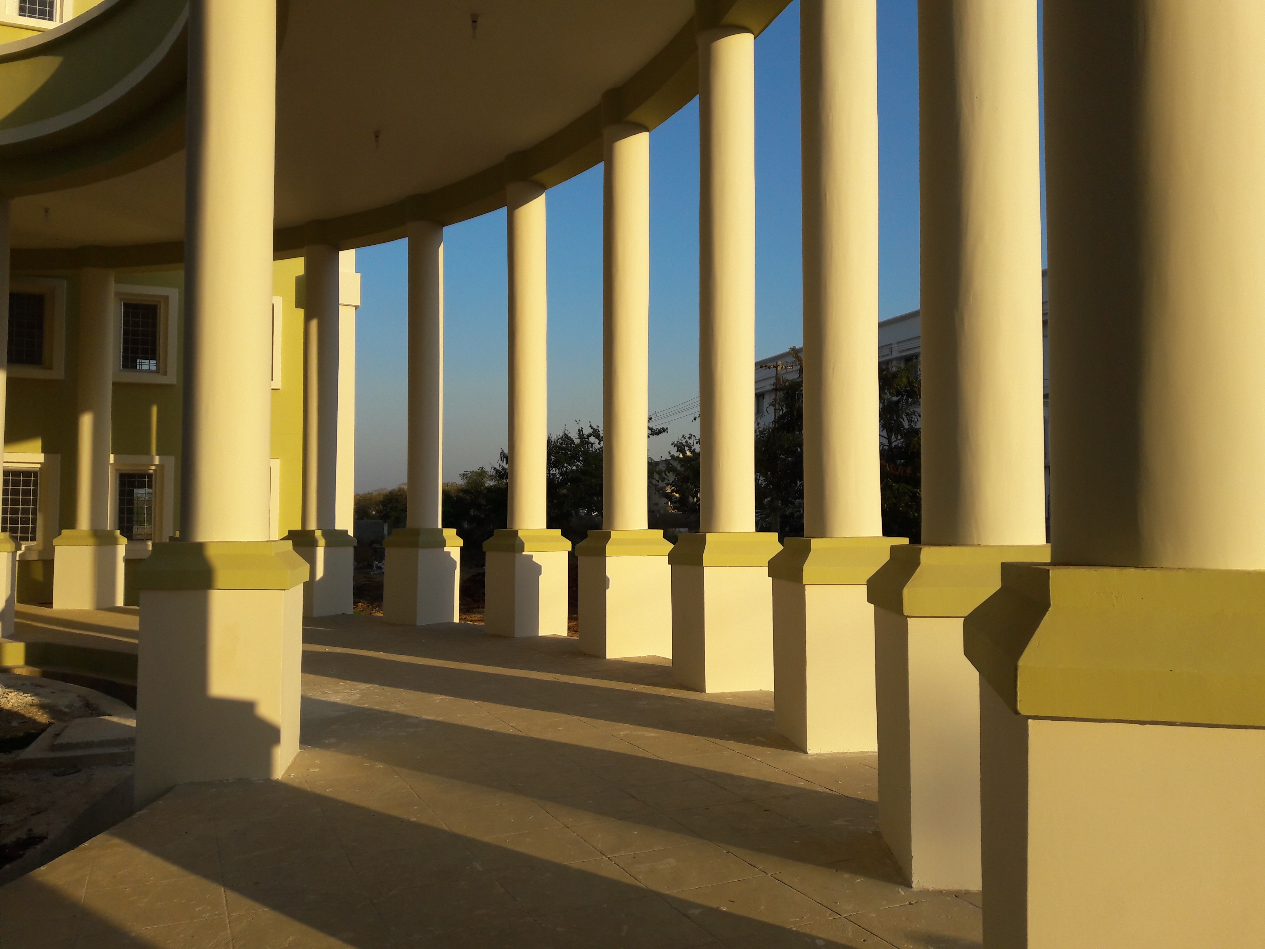 Corridor of a central library in Adikavi Nannayya University, Rajamahendravaram (Rajahmundry)